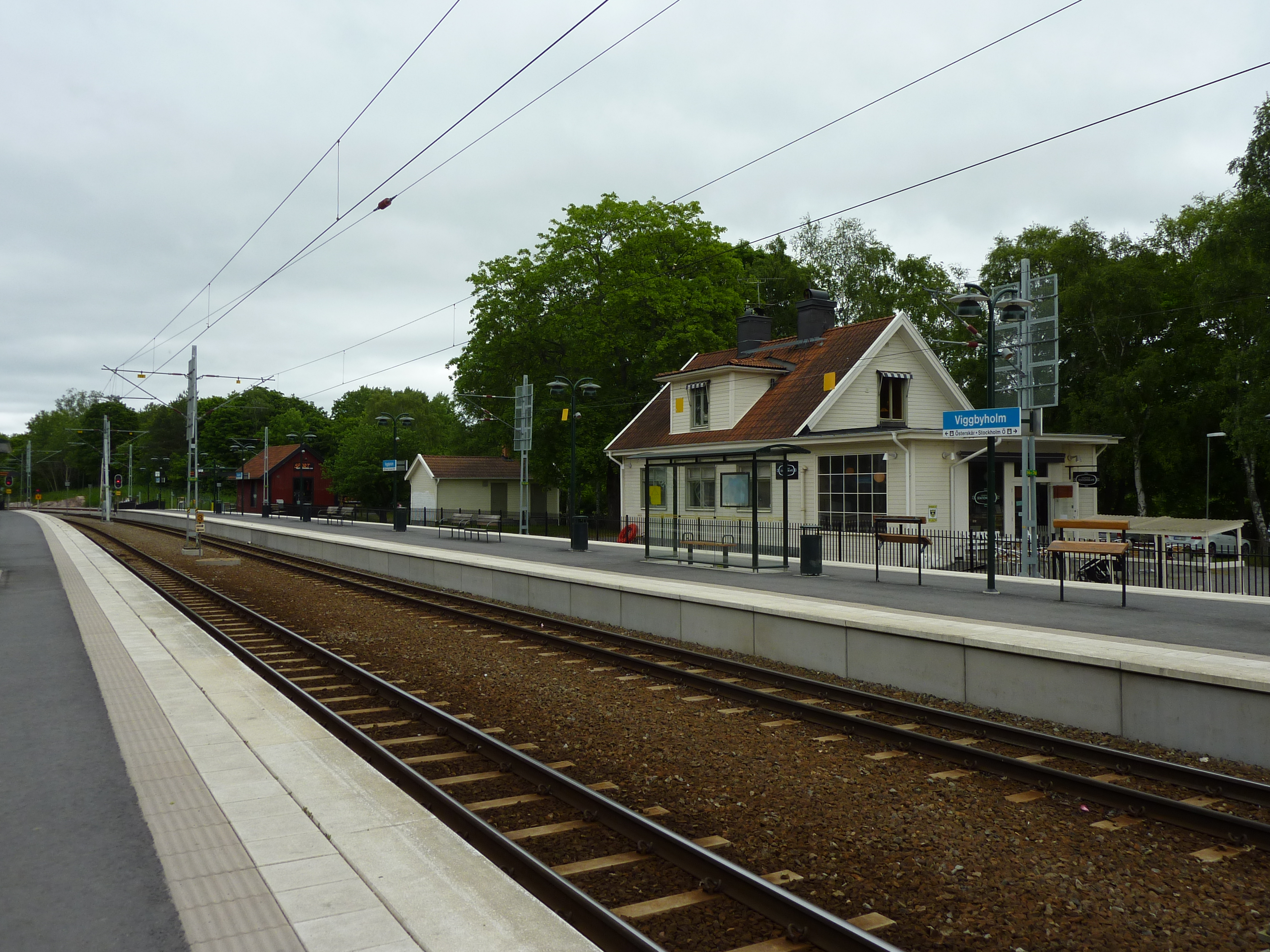 Railway station Viggbyholm in Sweden